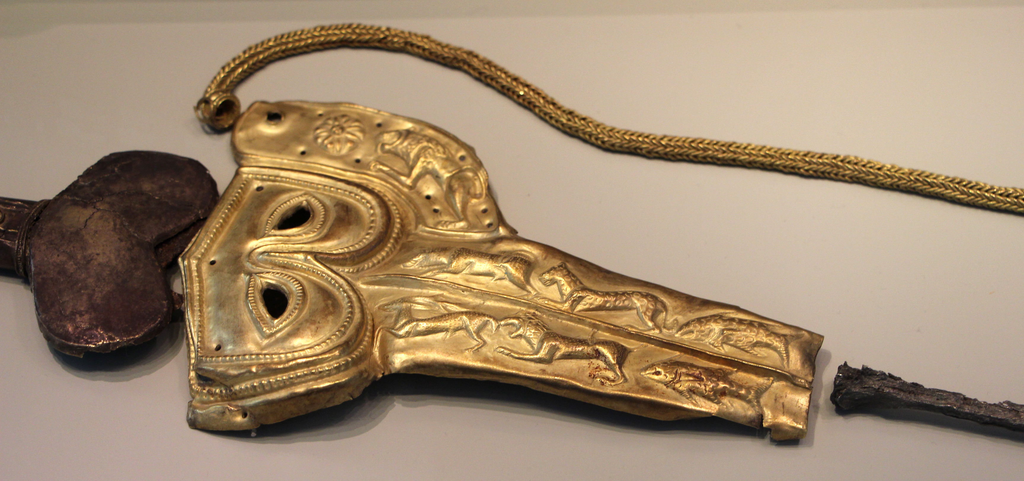 Ancient Greek jewellery in the Antikensammlung Berlin